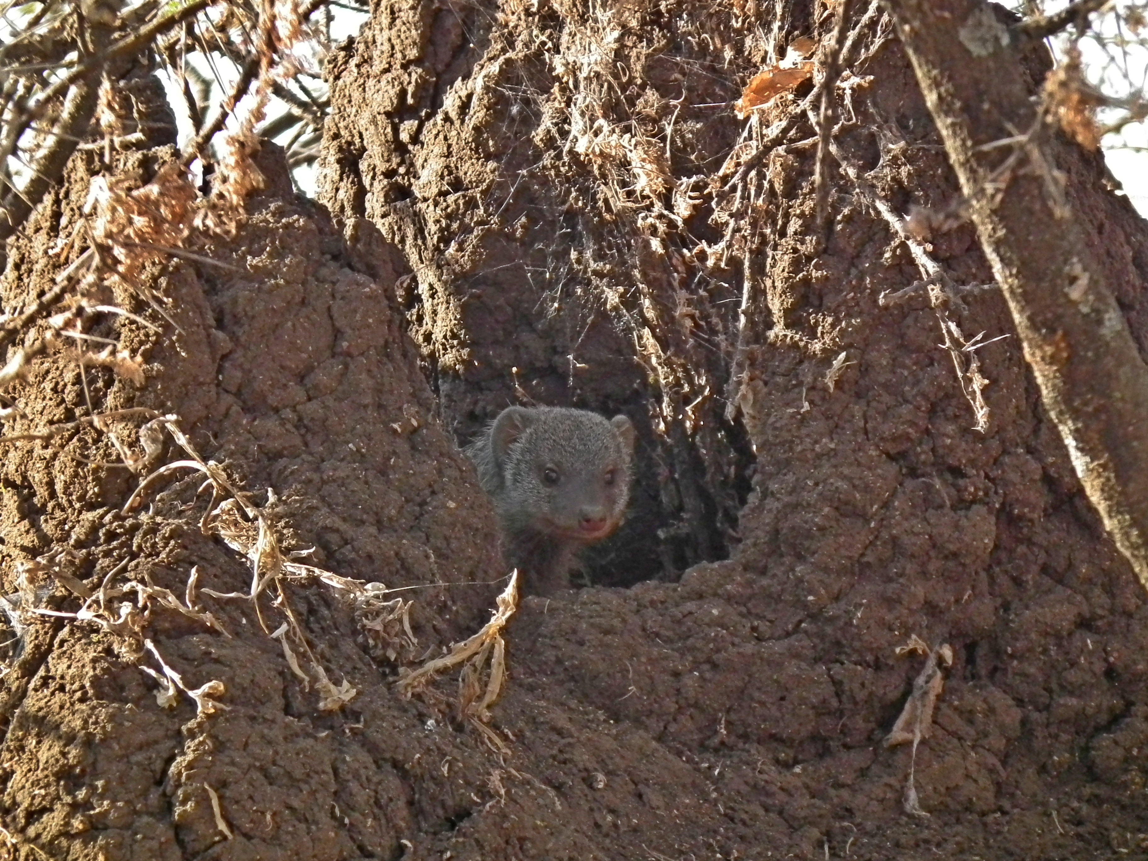 Banded Mongoose, looking out a borrow entrance. Mungos mungo from Tanzania